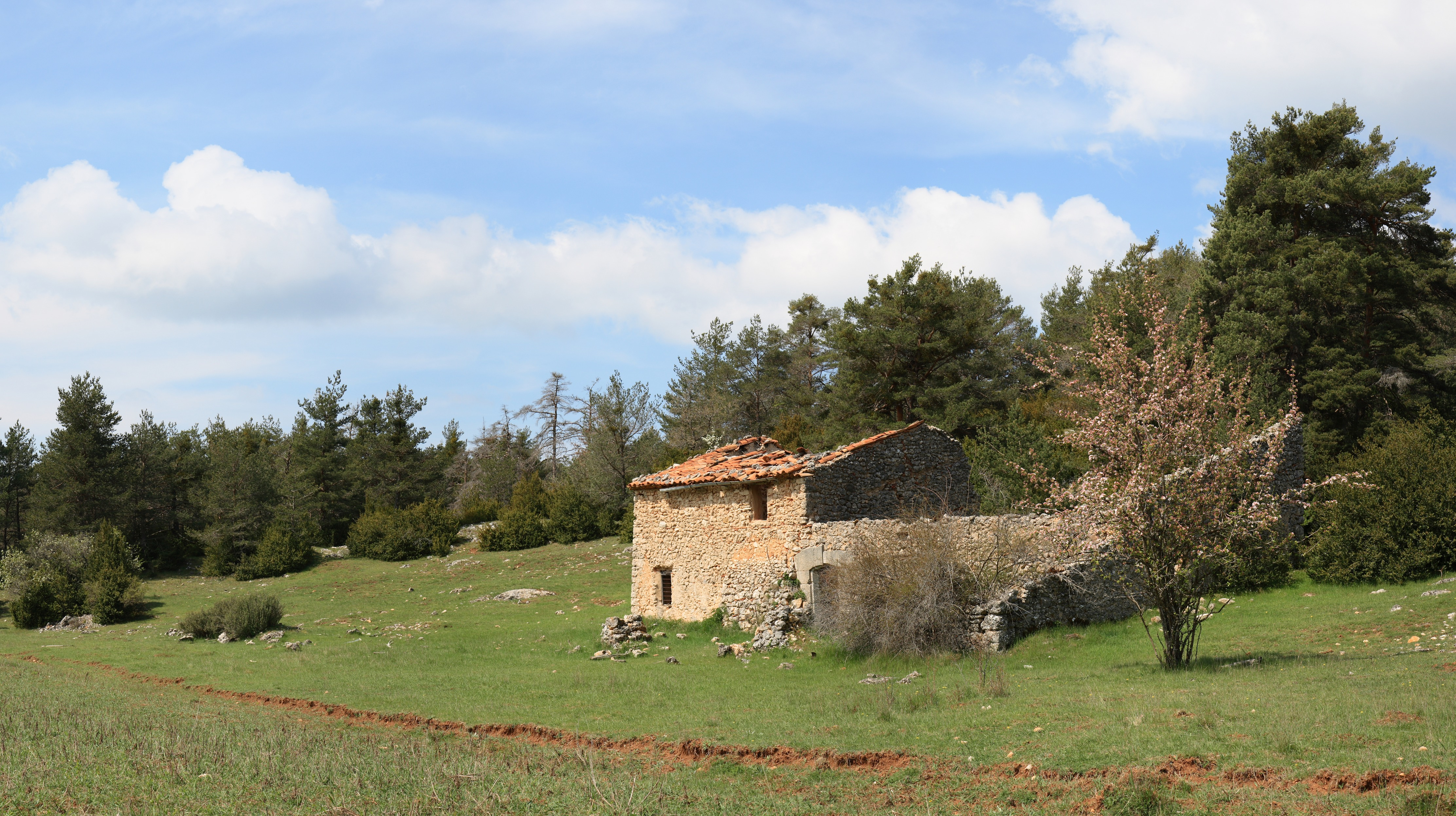 An abandonned house, not so far from La Palud-sur-Verdon, Alpes-de-Haute-Provence, South of France. This is a 2x3 panorama made with Hugin.